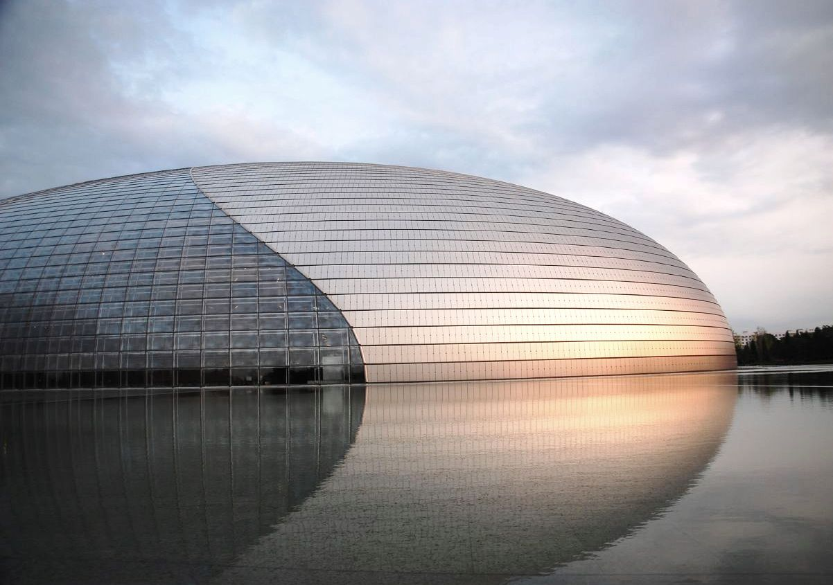 The National Centre for the Performing Arts, Beijing